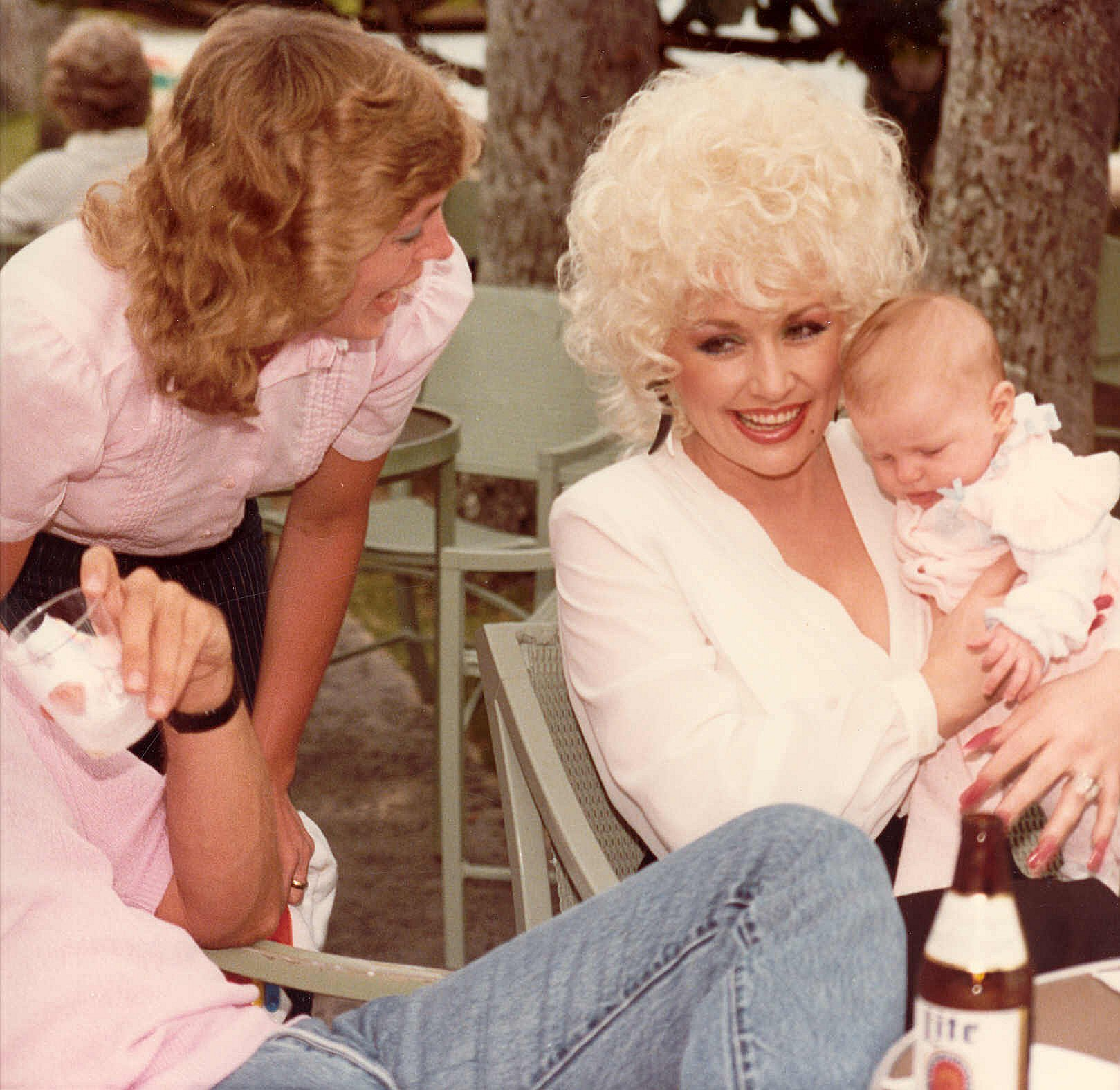 Dolly Parton. Photo taken in 1983 at the Kahala Hilton Hotel, Honolulu, Hawaii - Dolly is seen here with my sister and her daughter - Permission granted to copy, publish or post but please credit "photo by Alan Light" if you can .